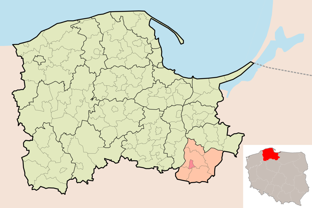 Locator map for communes (gmina) in pomorskie, with powiat highlighted Map - PL - powiat kwidzynski - miasto Kwidzyn.PNG